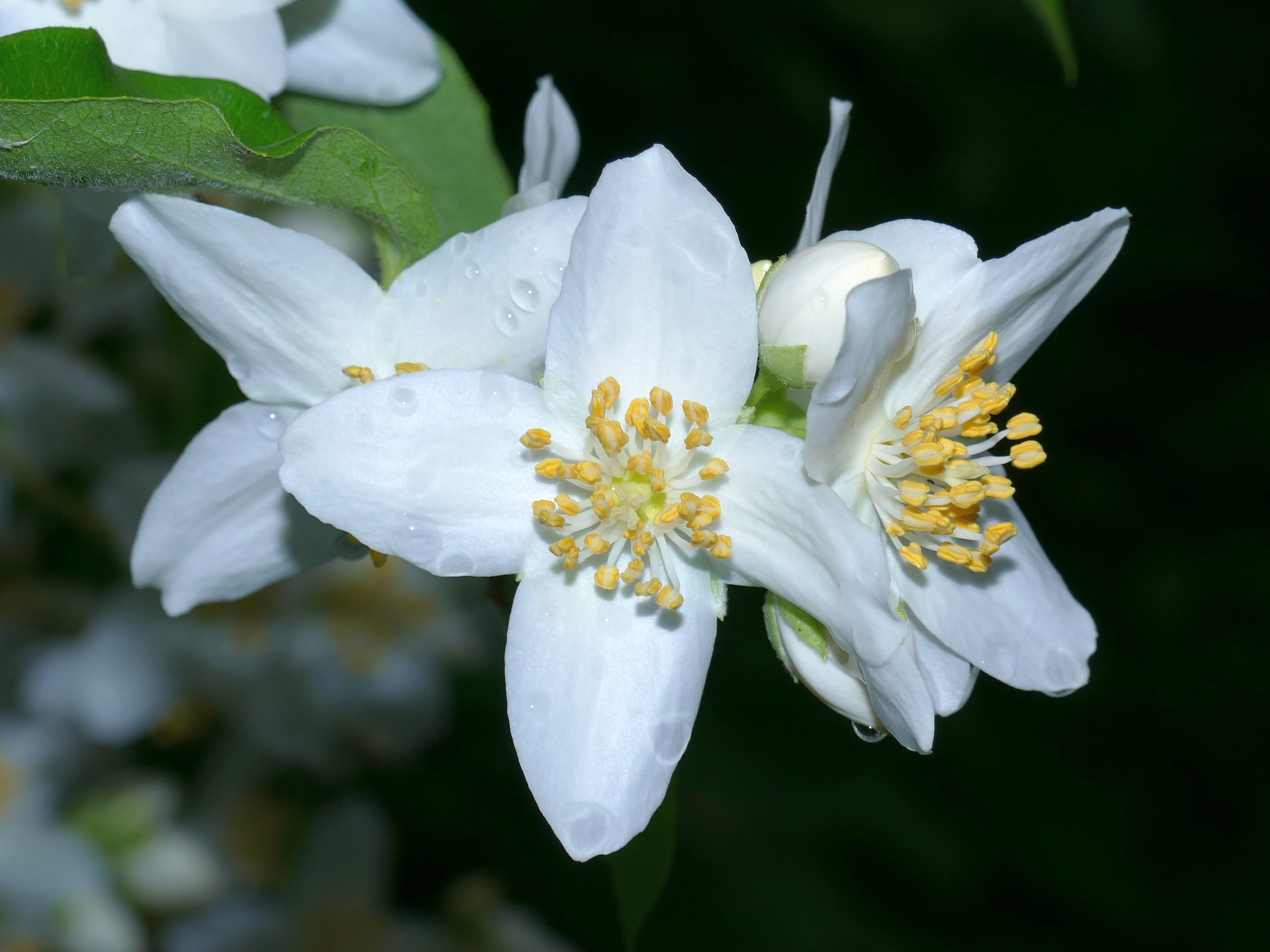 Philadelphus coronarius L. Flowers of sweet mock orange, cultivated as a garden plant in the Moscow region (Russia)